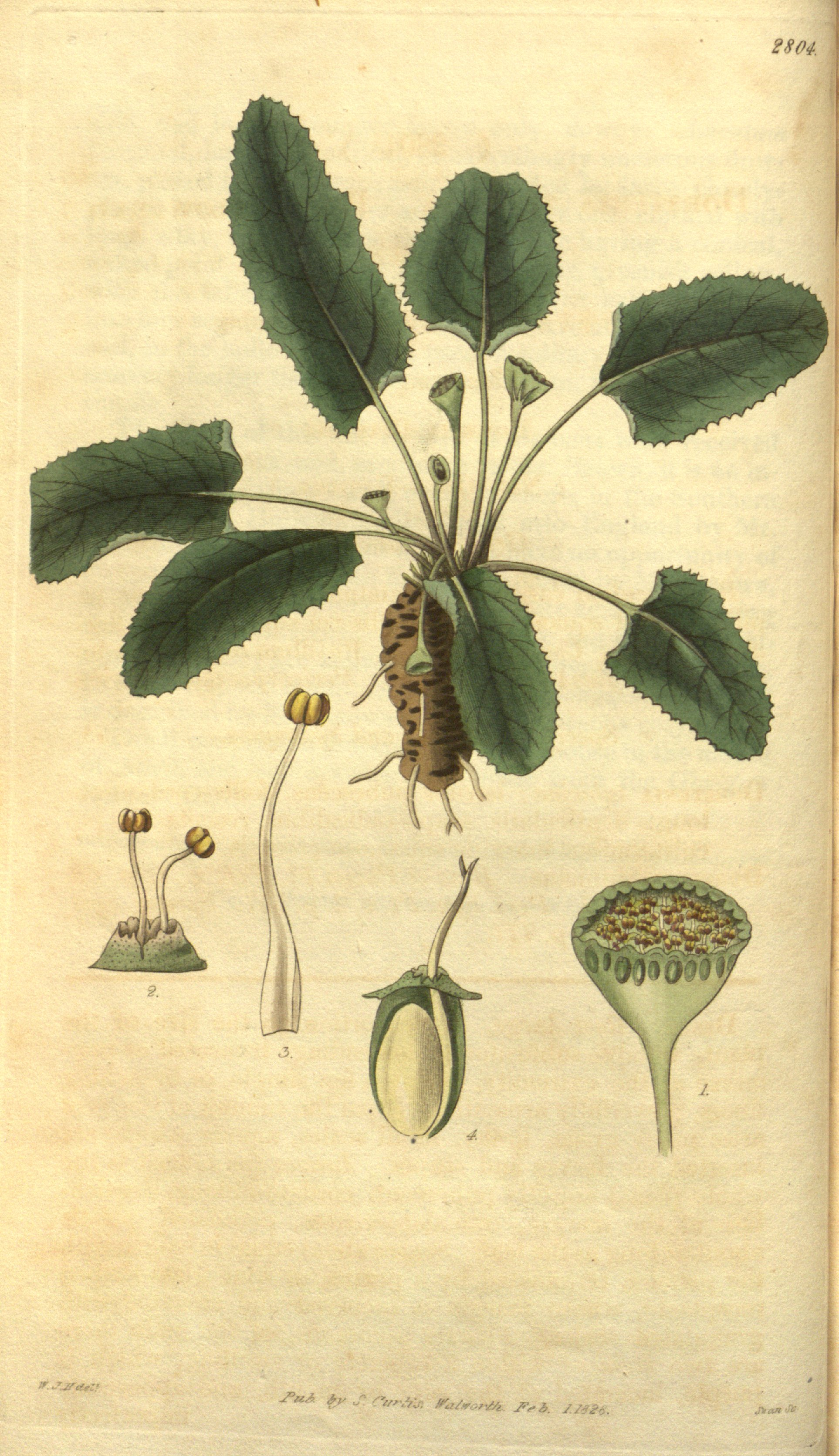 Dorstenia brasiliensis Lam. [as Dorstenia tubicina Ruiz & Pavon] Curtis’s Botanical Magazine, t. 2791-2875, vol. 55 [ser. 2, vol. 2]: t. 2804 (1828) [W.J. Hooker]